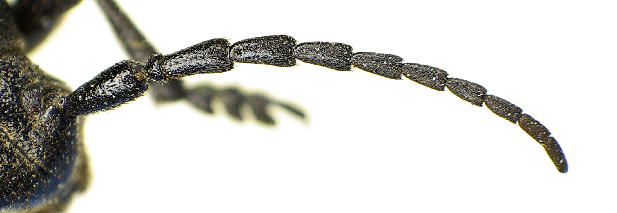 Carinatodorcadion aethiops, antenna